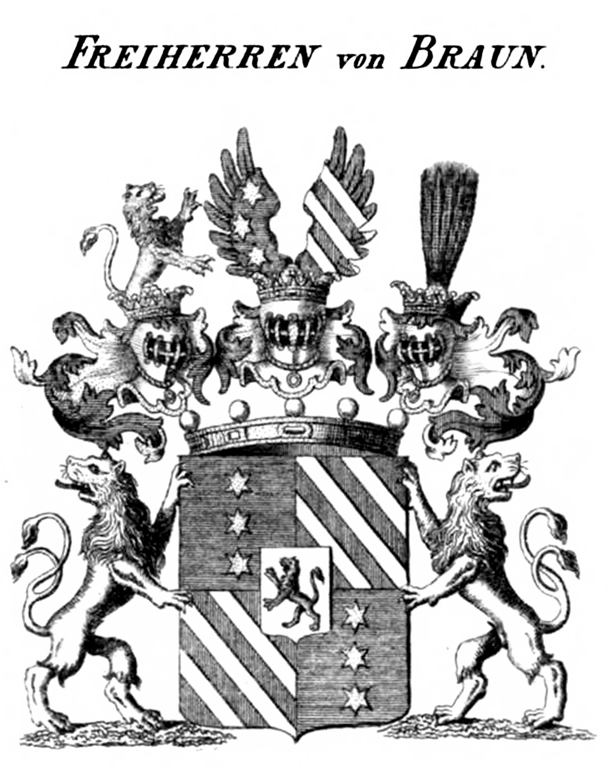 Wappen Braun 2 - Tyroff AT.jpg